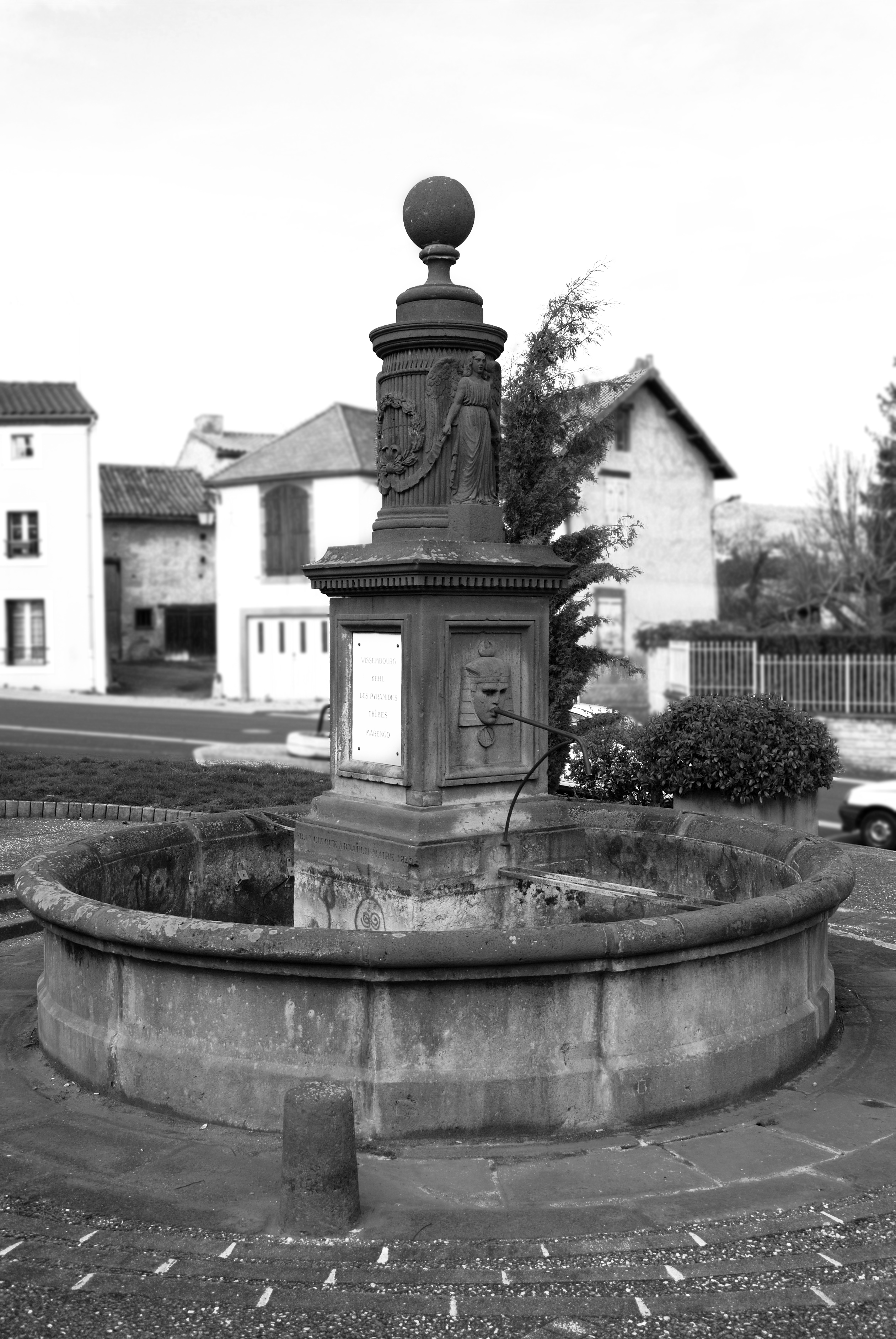 Combronde : Desaix fountain (Puy-de-Dôme, France) (Egyptian Revival architecture). By Antoine and Michel Channeboux, father and son, sculptors.